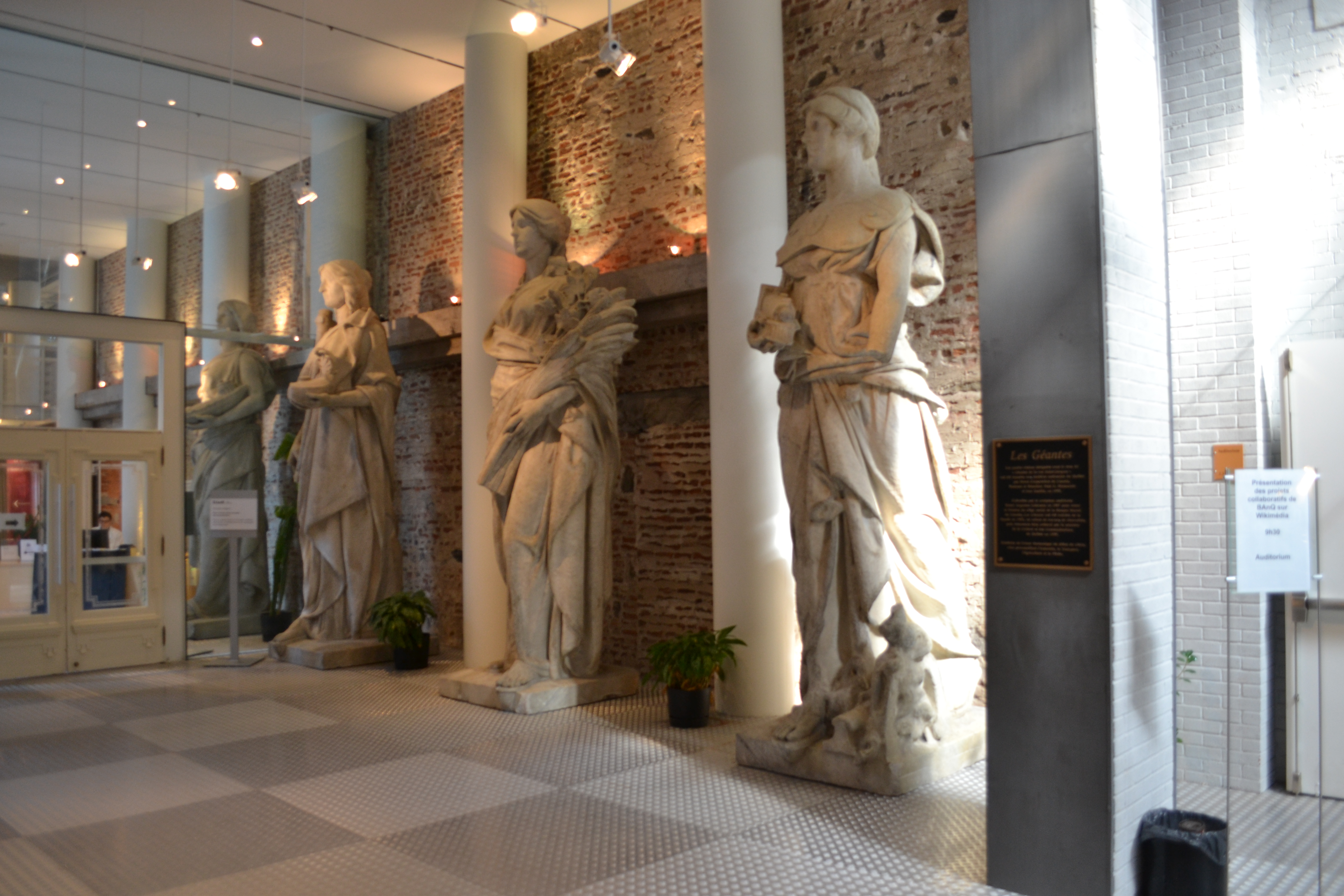 Gilles-Hocquart Building, Bibliothèque et Archives nationales du Québec (BAnQ Vieux-Montréal).